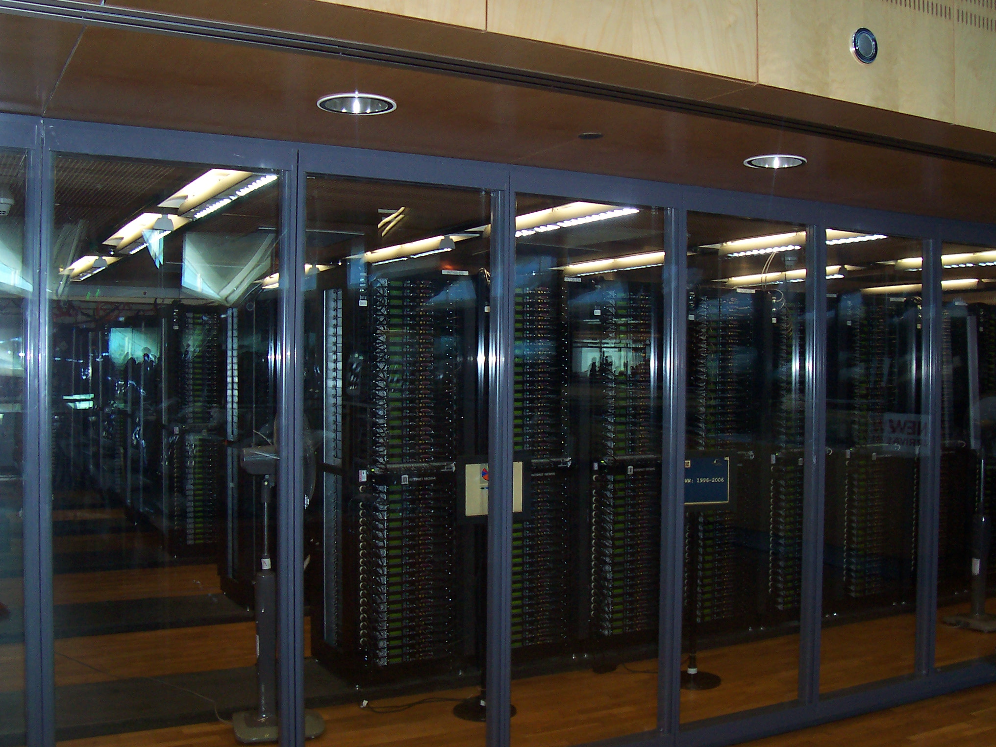 Mirror of the Internet Archive in the Bibliotheca Alexandrina.